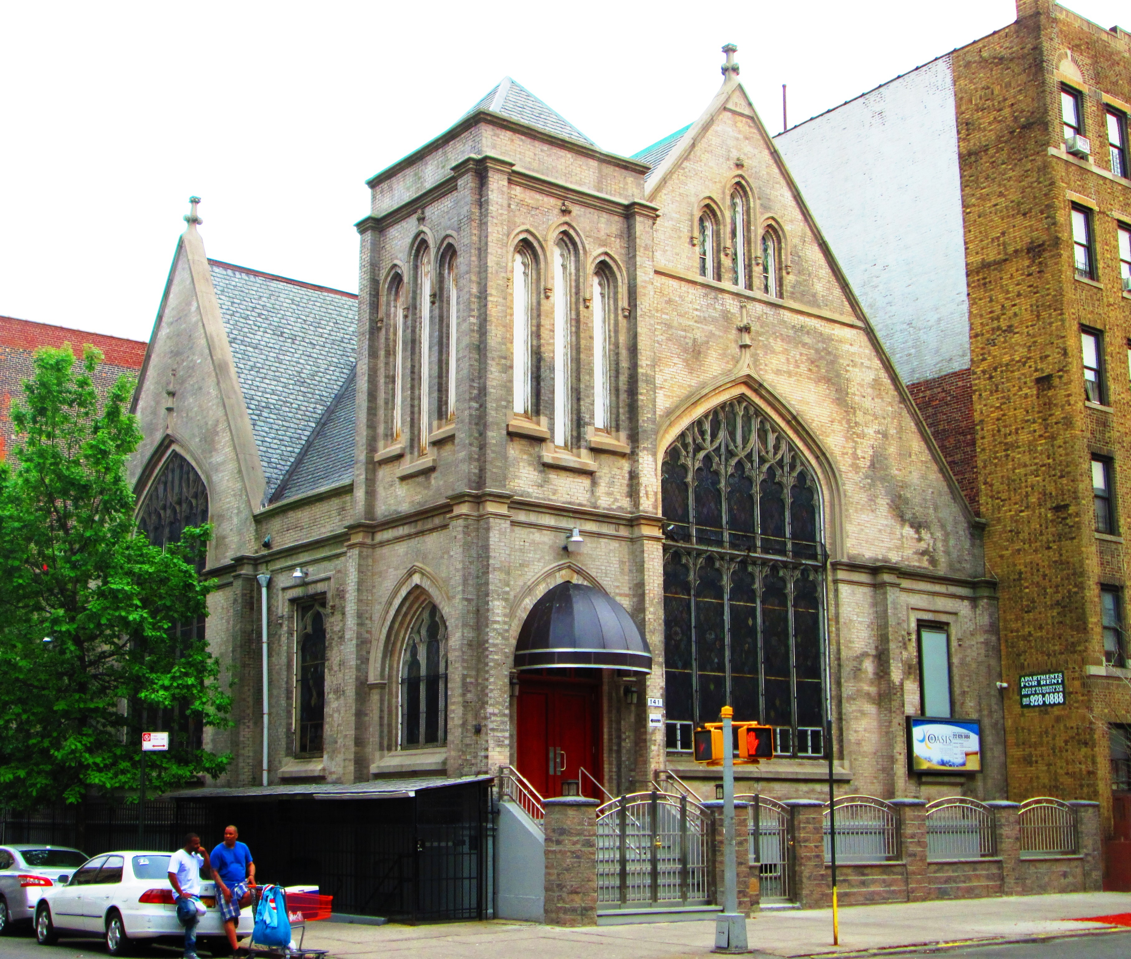 The Iglesia Alianza Oasis, located at 141 Audubon Avenue at the corner of West 172nd Street in the Washington Heights neighborhood of Manhattan, New York City, was built in 1894 and was designed by Andrew Spence. Originally the United Presbyterian Church, the building has also been the Fort Washington Adventist Church and the Camino Church of the Christian and Missionary Alliance. (Source; From Abyssinian to Zion (2010))